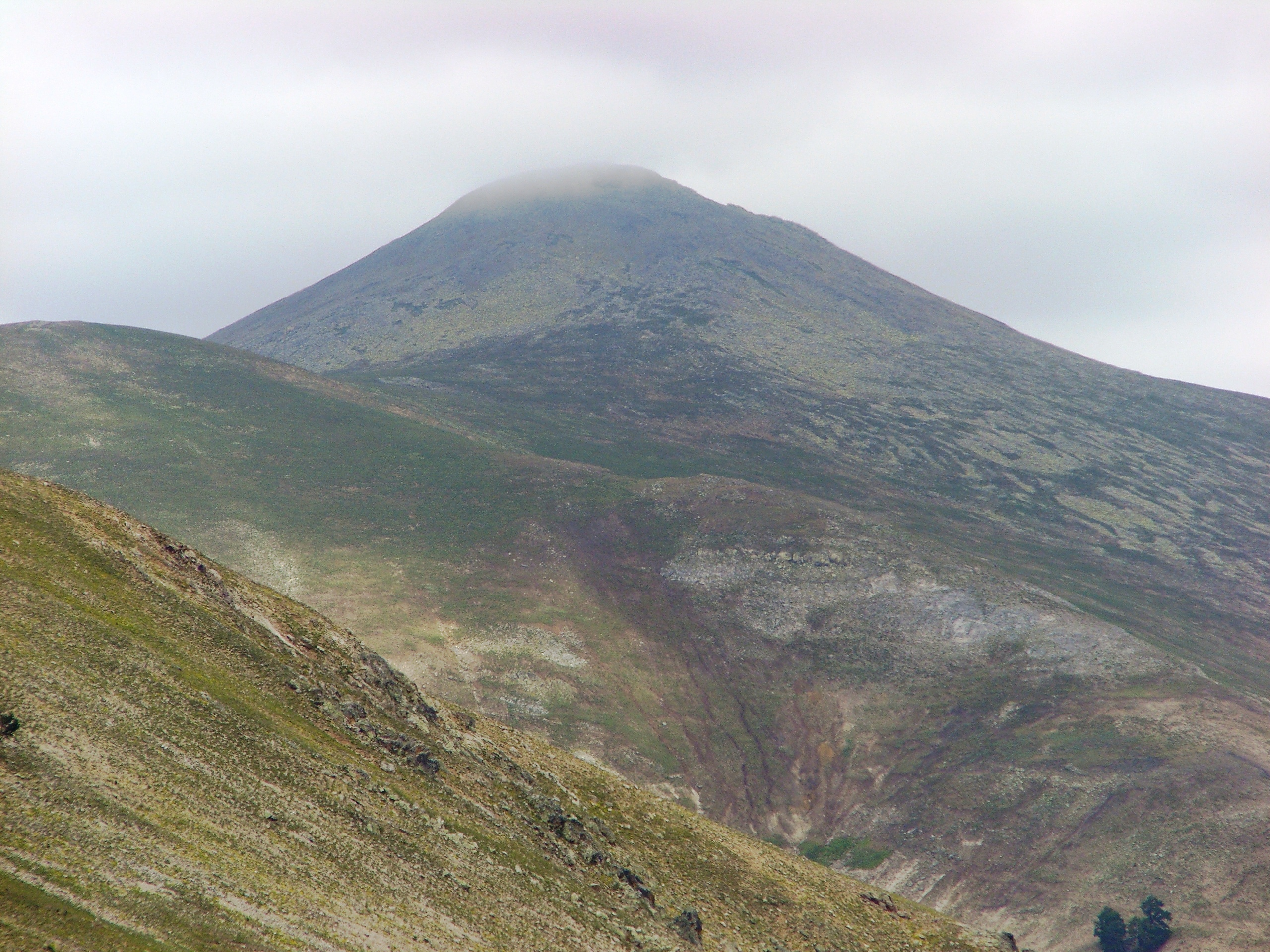 Akilbaba Tepesi (means "wisdom father crest" in Turkish). This is the highest point of Giresun Daglari (Giresun mountains chain) located in the Giresun Province in the Black Sea Region of Turkey. Its height is 2850 m.